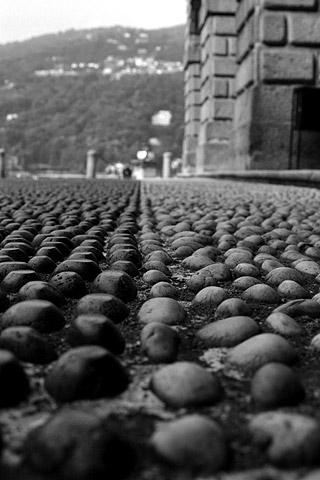 Description: Italian Cobblestone street Photographer: Aaron Logan ( and License: CC-by-1.0